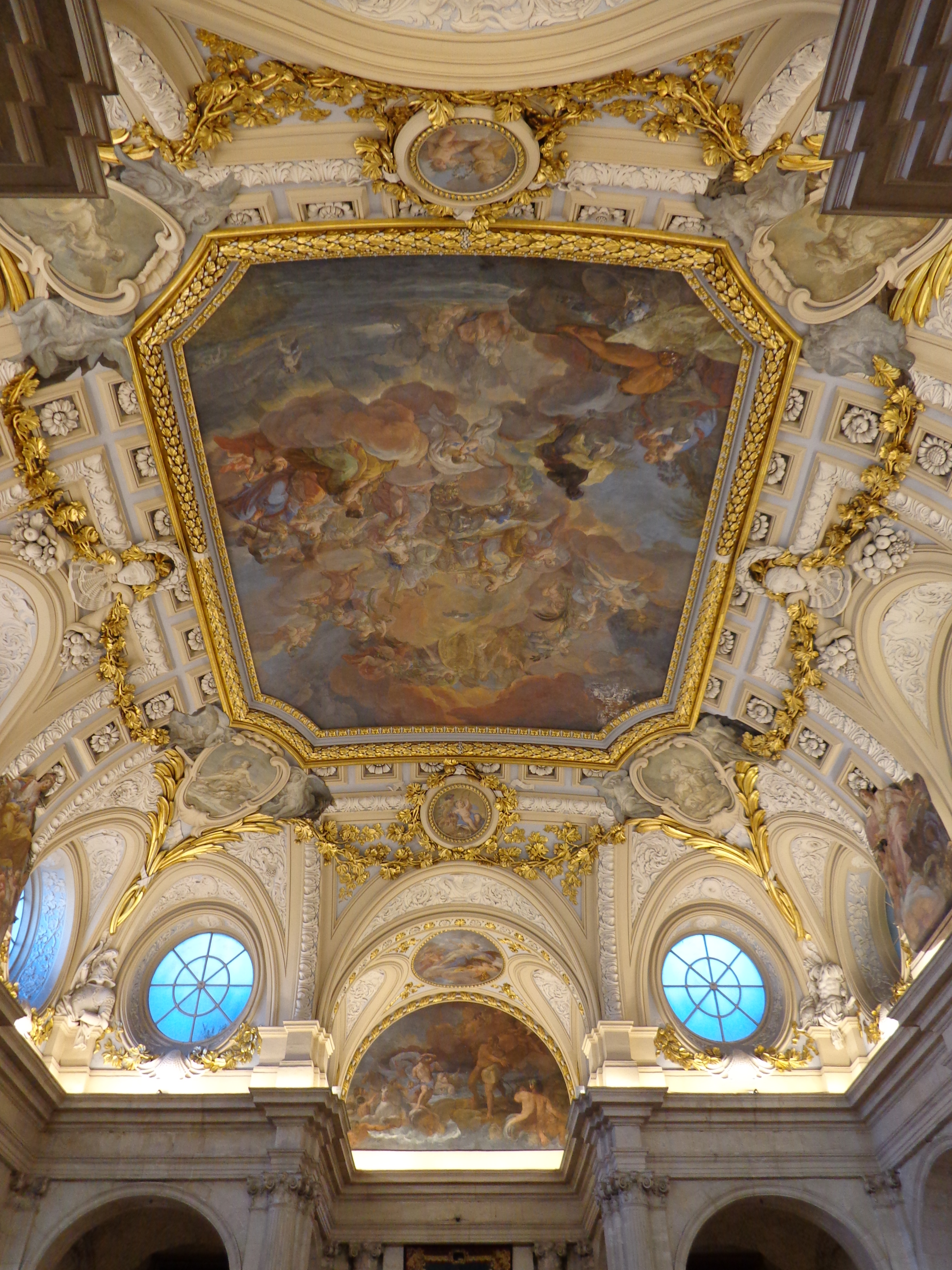 Royal Palace of Madrid